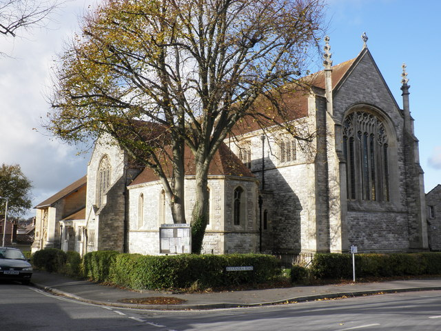 St Mary the Virgin parish church, Edward Road, West Fordington, Dorchester, Dorset, seen from the southeast